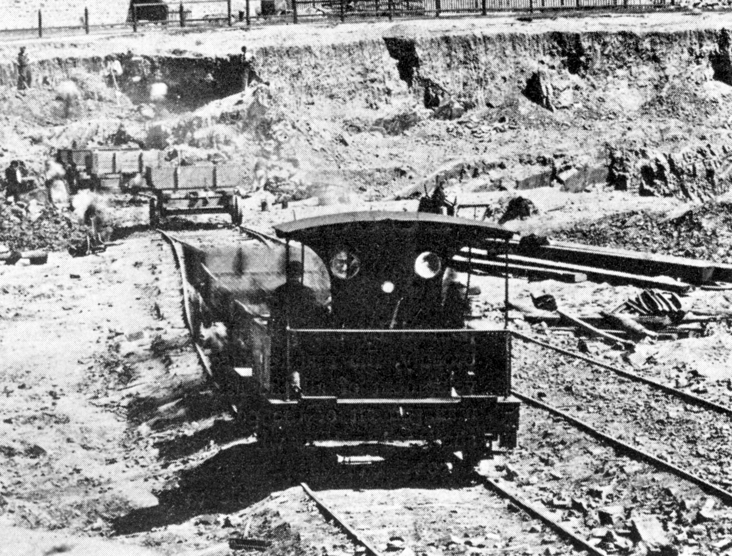 Cape Town Harbour Board’s 7 ft ¼ in gauge 0-4-0 construction locomotive of 1874